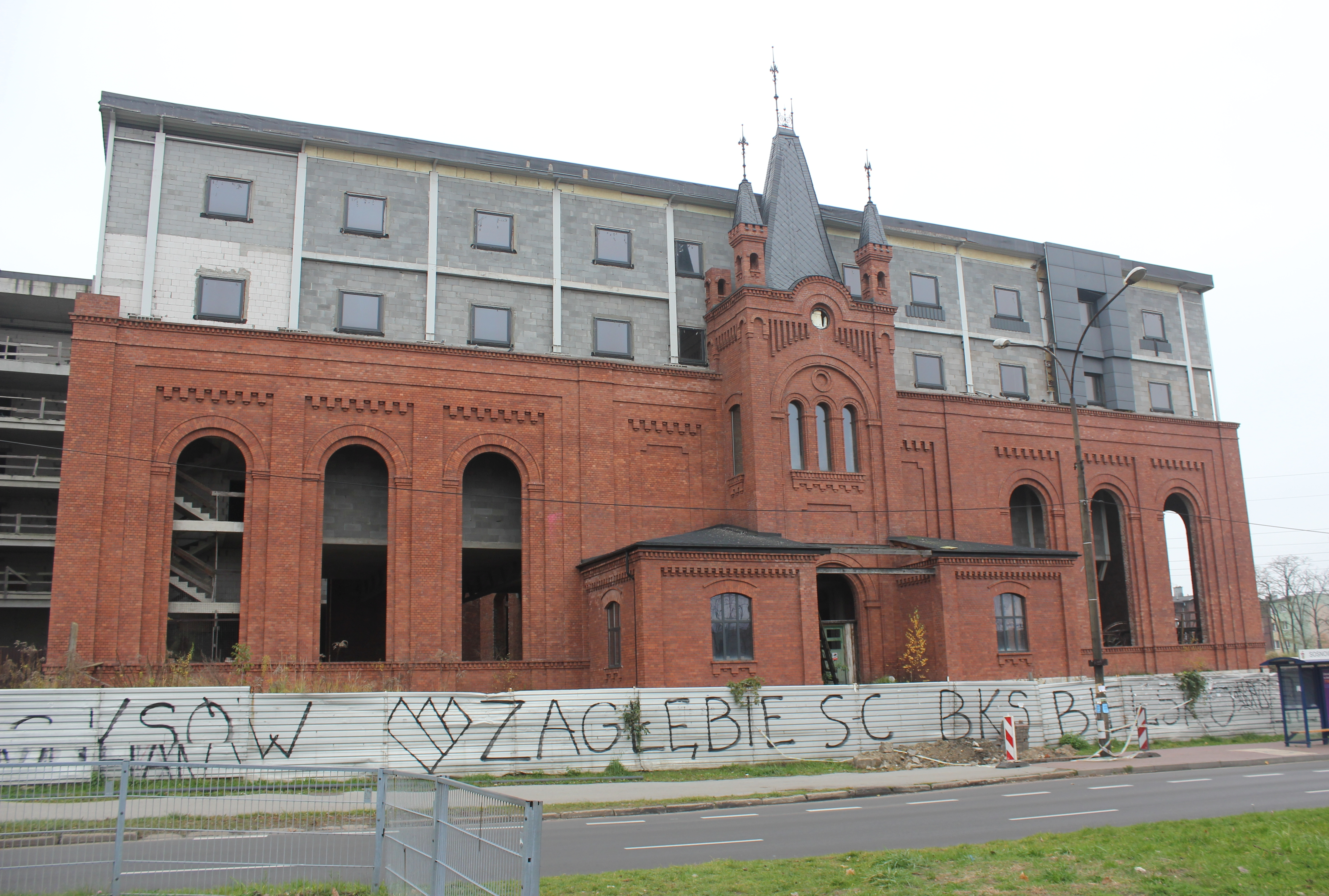 Sosnowiec - building of the old Renard power plant